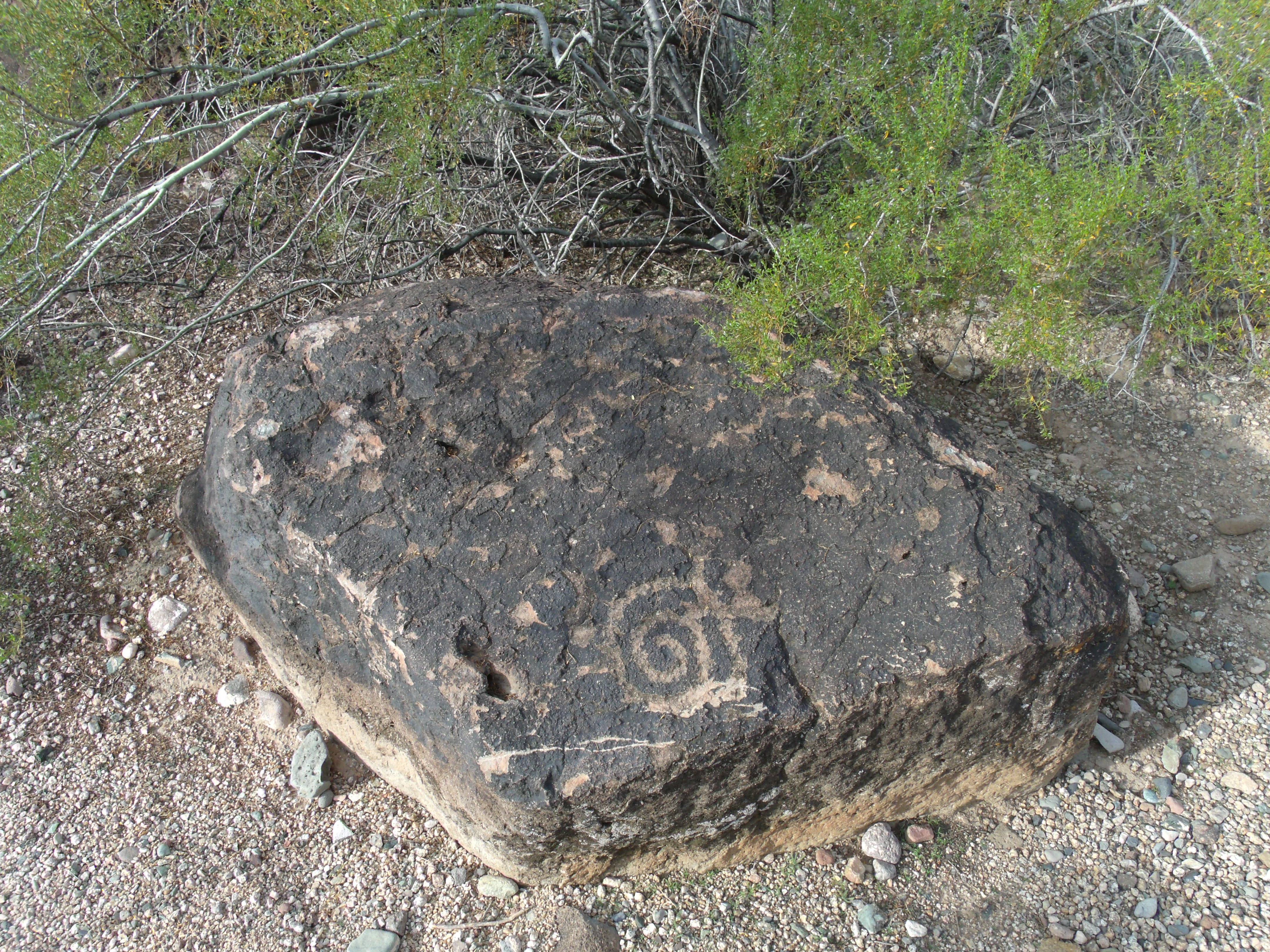 This Petroglyph with a spiral was made by the Hohokams over a 1000 years ago. The petroglyph is located in the Deer Valley Rock Art Center in Phoenix, Arizona.